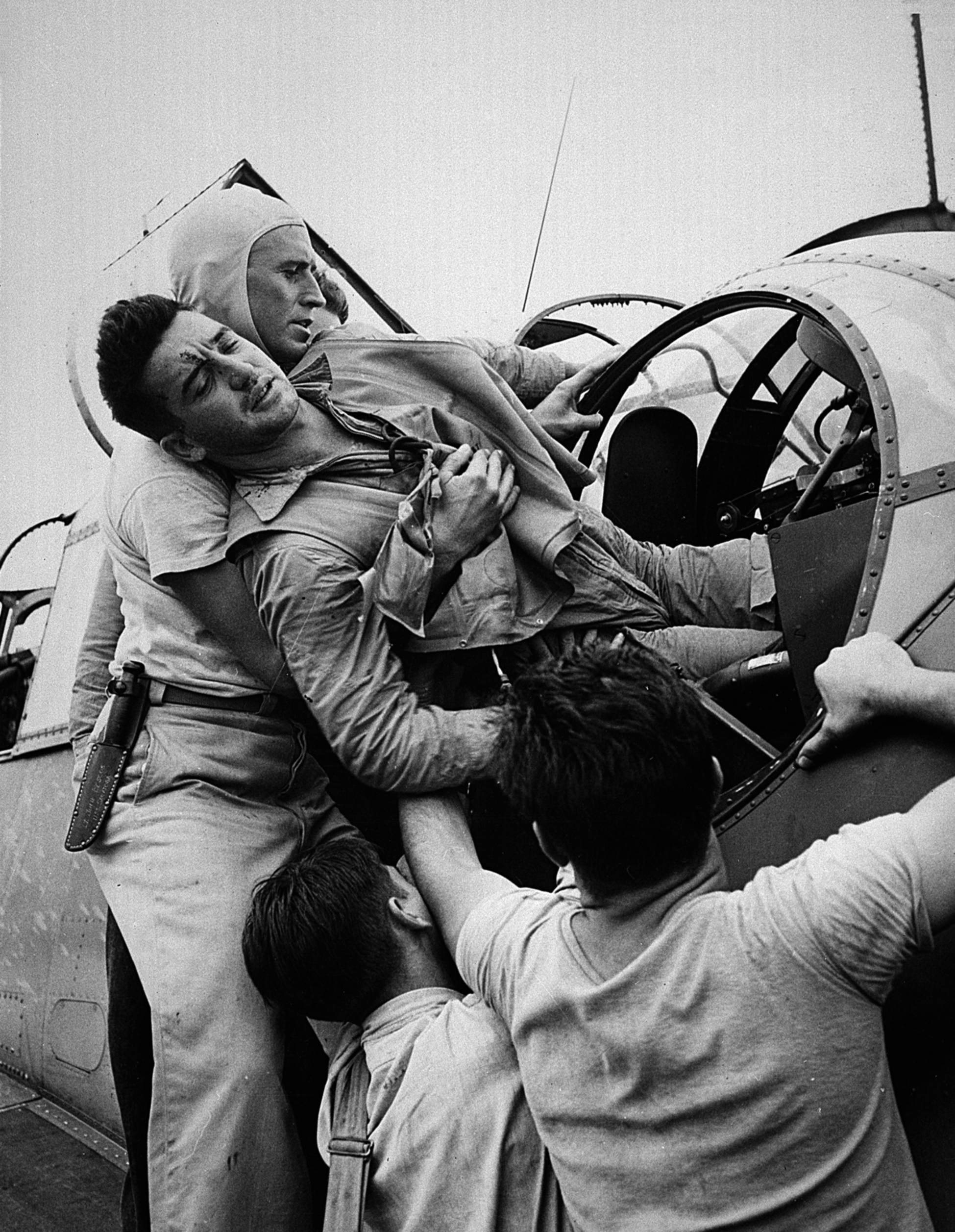 Crewmen aboard USS Saratoga lift AOM Kenneth Bratton, USNR, out of a TBF Avenger's rear turret after a raid on Rabaul on 5 November 1943. The aircraft and a friendly F6F Hellcat successfully fought off eight attacking Zeroes, downing three. Bratton and pilot Commander Henry Caldwell survived. Photographer's Mate Paul Barnett was killed in action.